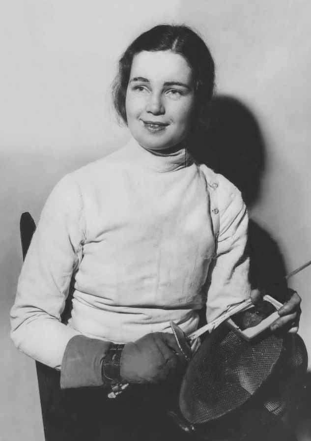 1931 Press Photo Marion Lloyd of the Salle D'Armes Fencing Club in New York